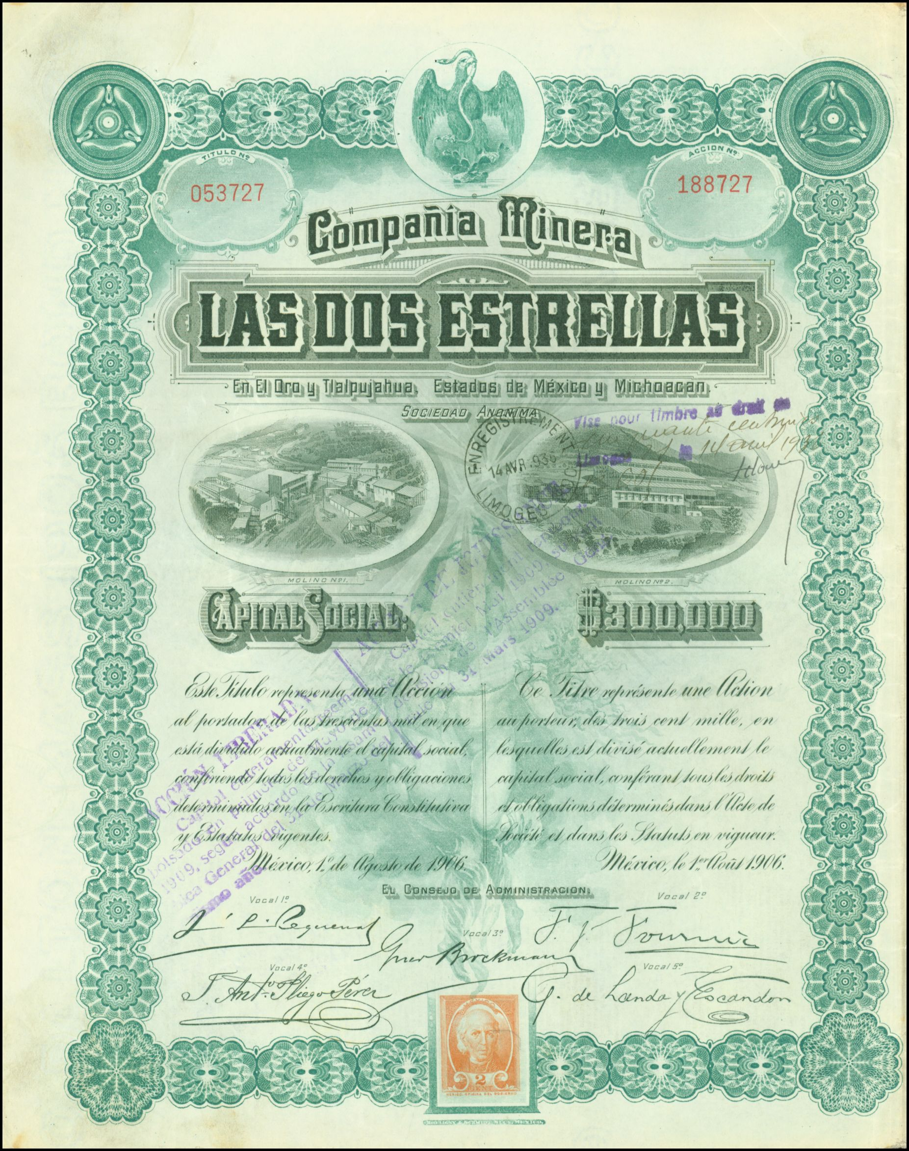 Share of the Comp. Minera Las Dos Estrellas, issued 1. August 1906